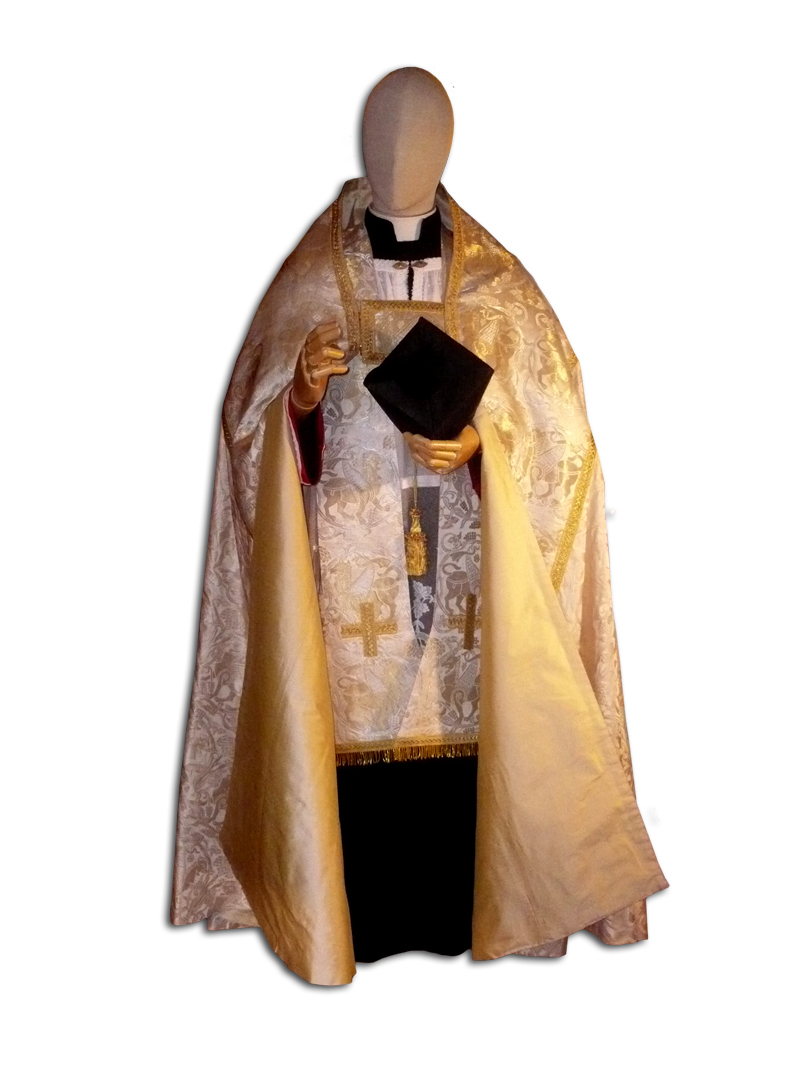 Cope in Roman style